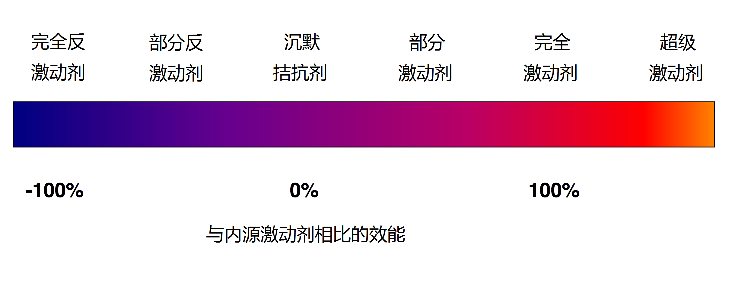 Efficacy spectrum of agonists